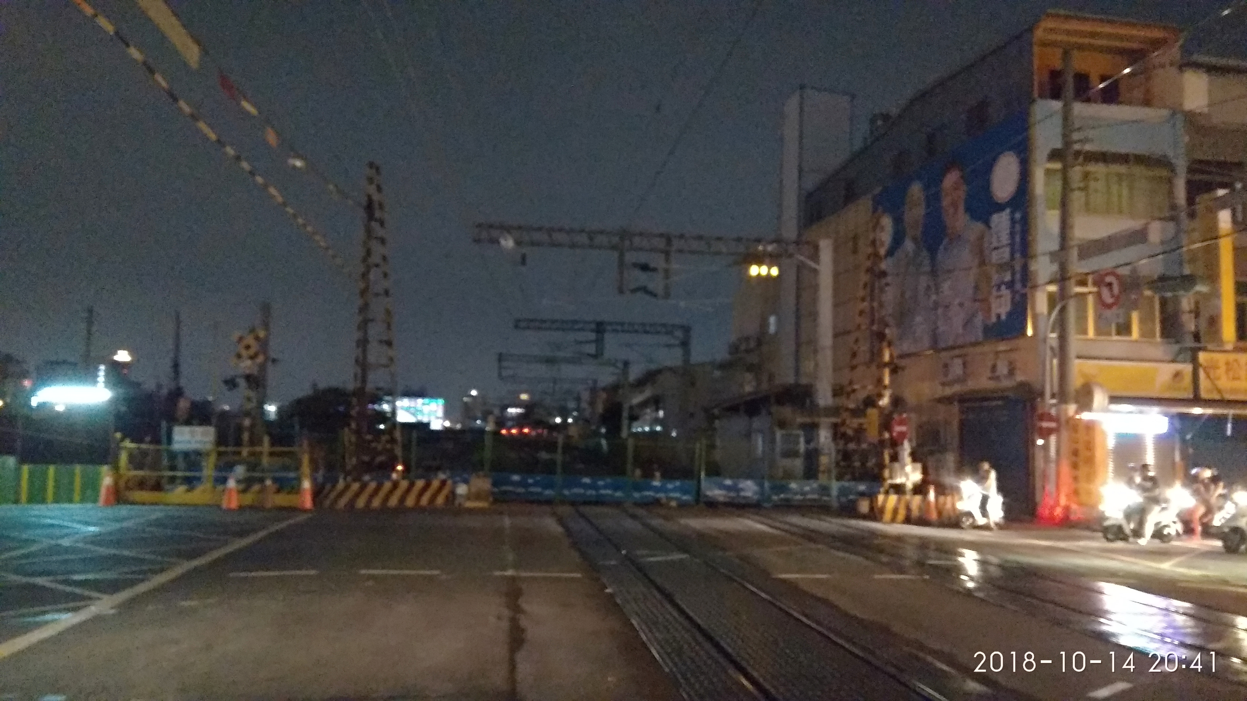 Scene of the level crossing on Fongsong Road after trains switched to running underground (West bound)